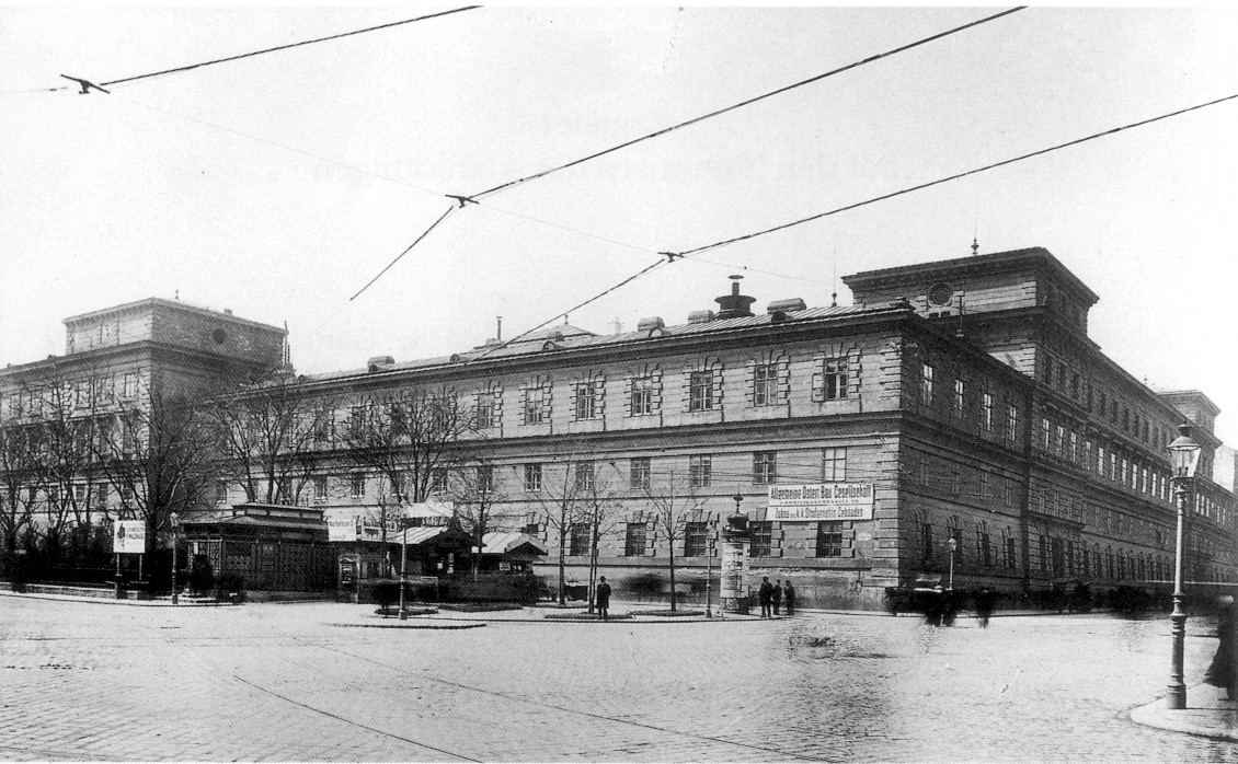 Vienna, Landesgericht, Landesgerichtsstraße 7. Between 16. November 1901 (Open Tramway) and 1906 (addition of another floor)